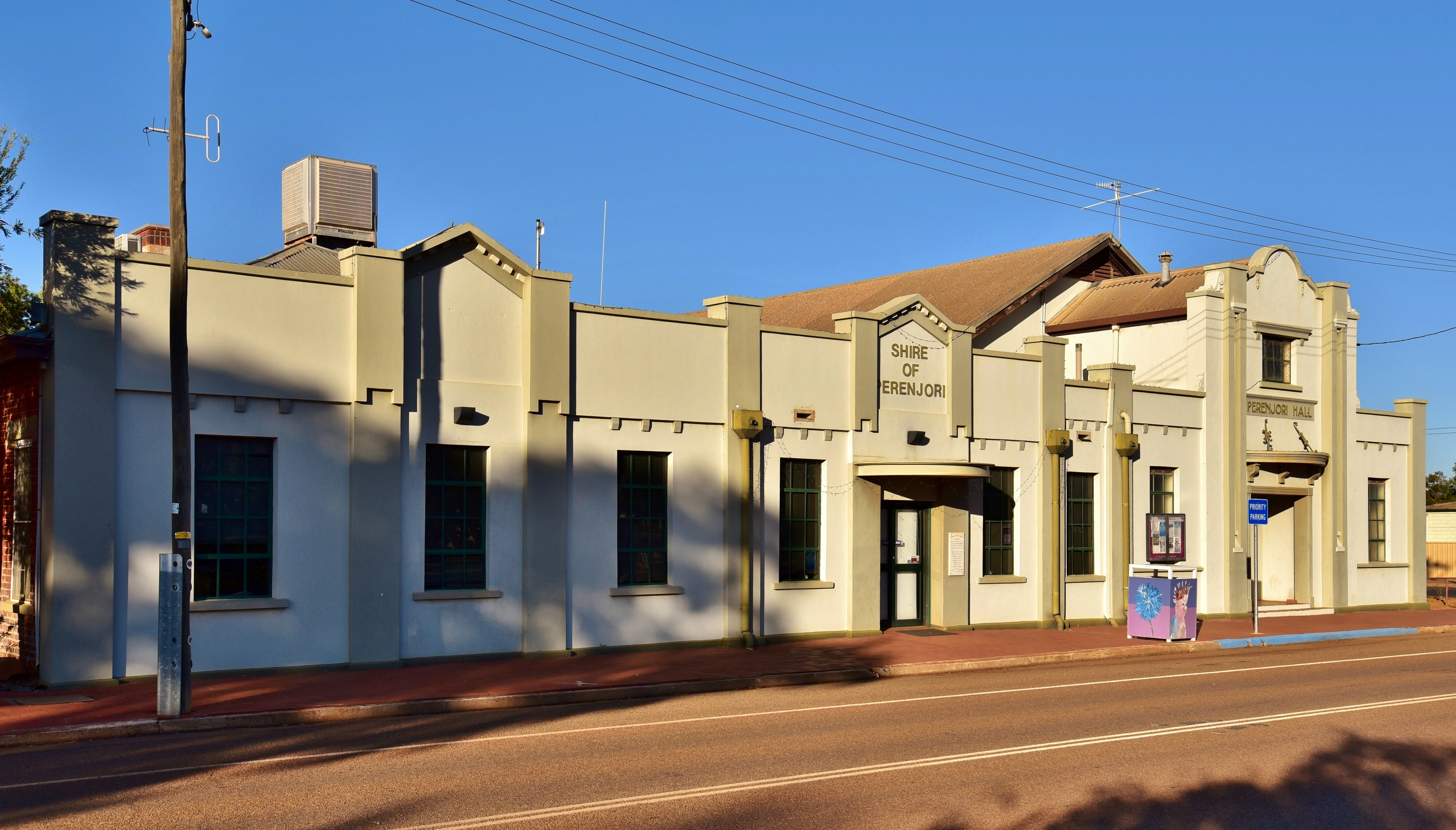 View of the Perenjori Shire Hall & Offices, 52 & 56 Fowler Street, Perenjori, Western Australia